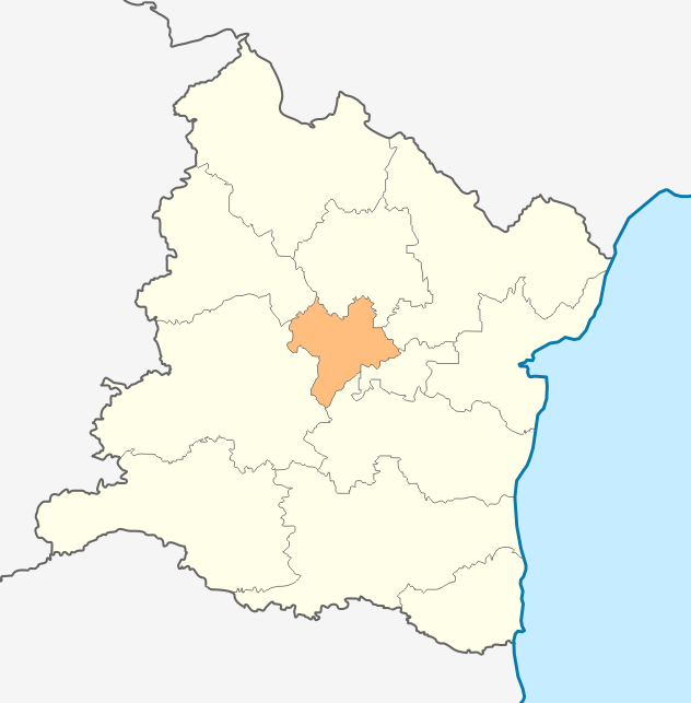 Map of Devnya municipality, Varna Province